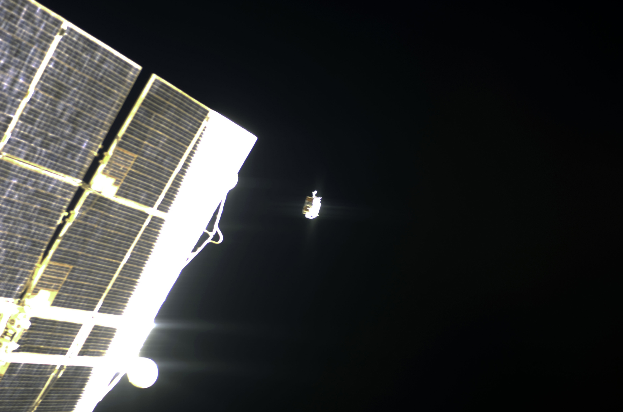 An extravehicular activity (EVA) tool bag drifts away from the International Space Station during the mission’s first scheduled spacewalk for STS-126. About halfway into the spacewalk, one of the grease guns that astronaut Heidemarie Stefanyshyn-Piper (out of frame), mission specialist, was preparing to use on the Solar Alpha Rotary Joint released some Braycote grease into her crew lock bag, which is the tool bag the spacewalkers use during their activities. As she was cleaning the inside of the bag, it drifted away from her and toward the aft and starboard portion of the International Space Station. Inside the bag were two grease guns, a scraper, a scraper debris container, several wipes in a caddy and tethers.